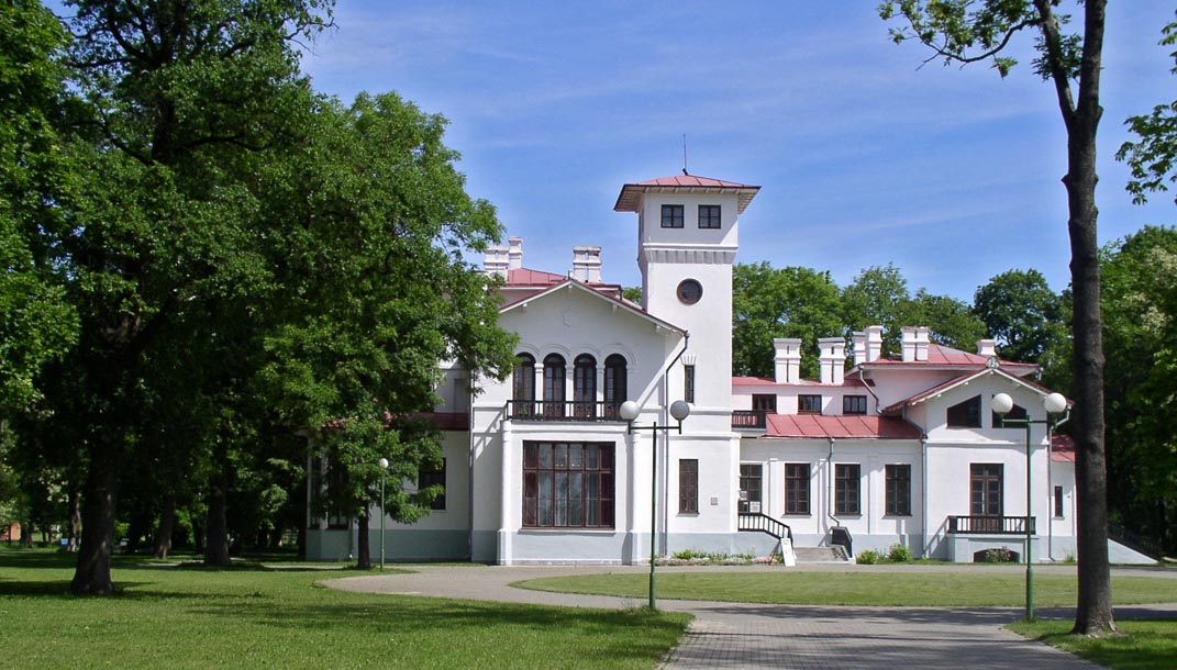 Palace in Pružany, Belarus